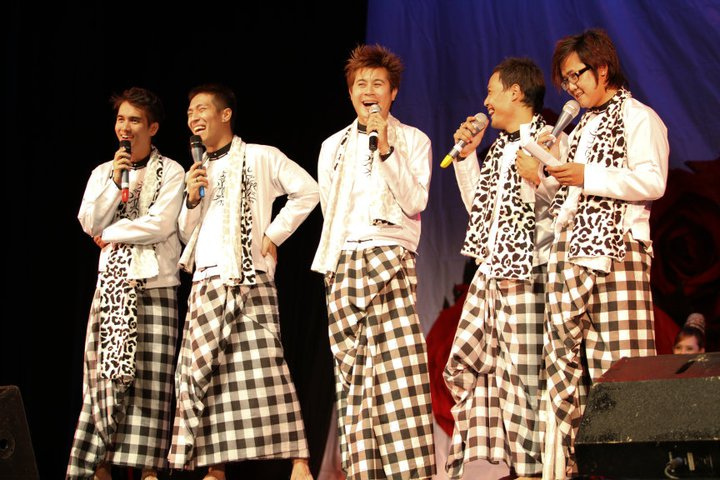 Eternal Rose Group entertaining as comedians in cultural dance show held in Singapore